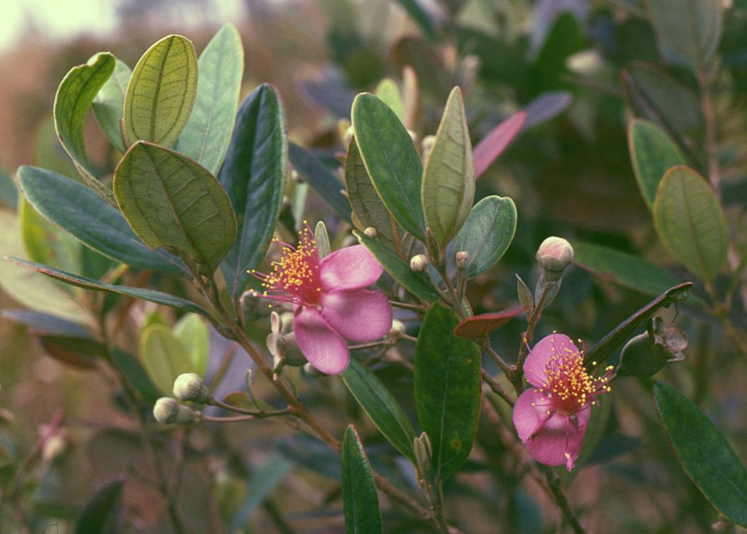 Rhodomyrtus tomentosa, Myrtaceae - Kambodscha/Cambodia, Phnom Bokor Nationalpark, "Black Palace" (Prov. Kampot)